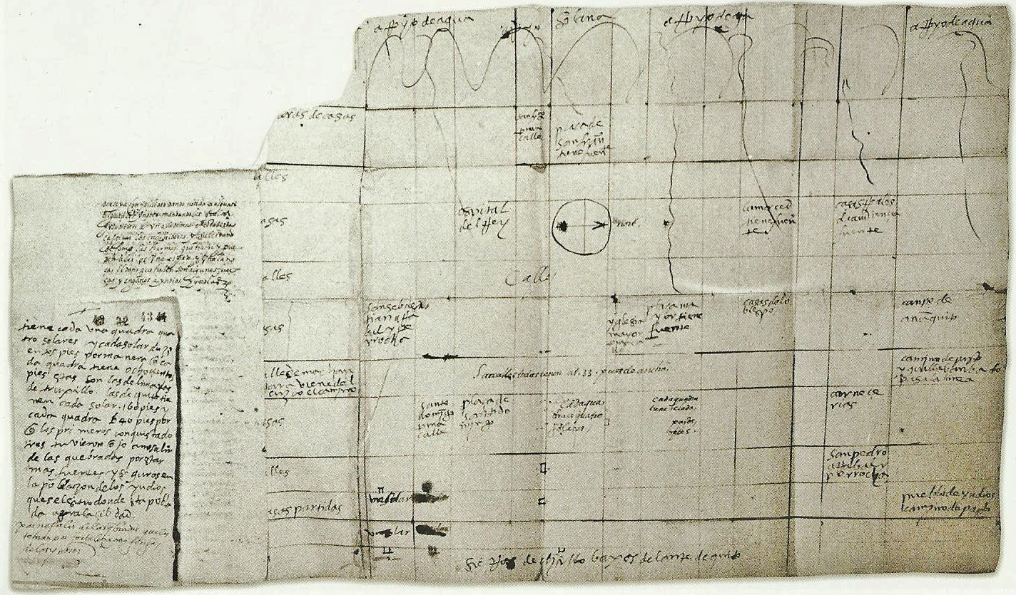 The Graphic is part of the Archive of the Royal Academy of History in Madrid and is the first known draft of the Layout of Colonial Quito